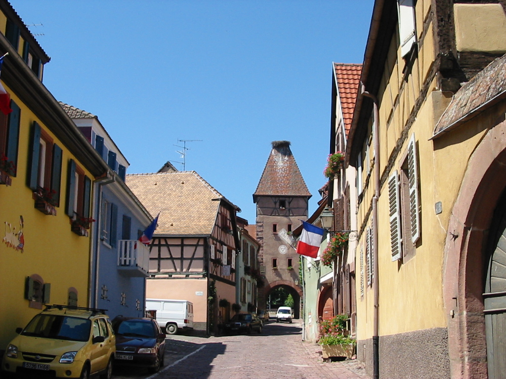 Ammerschwihr, commune in the Haut-Rhin department in Alsace in northeastern France. 13th century : remains of fortifications, the high gate or " Obertor ".